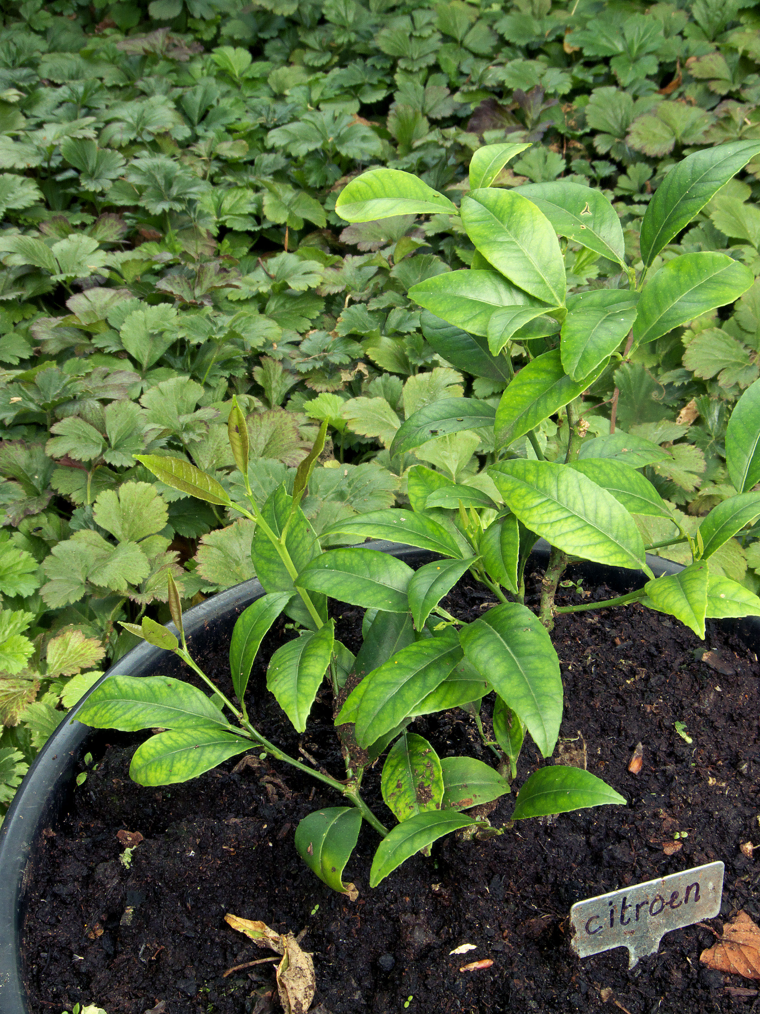 Citrus x limon chlorosis